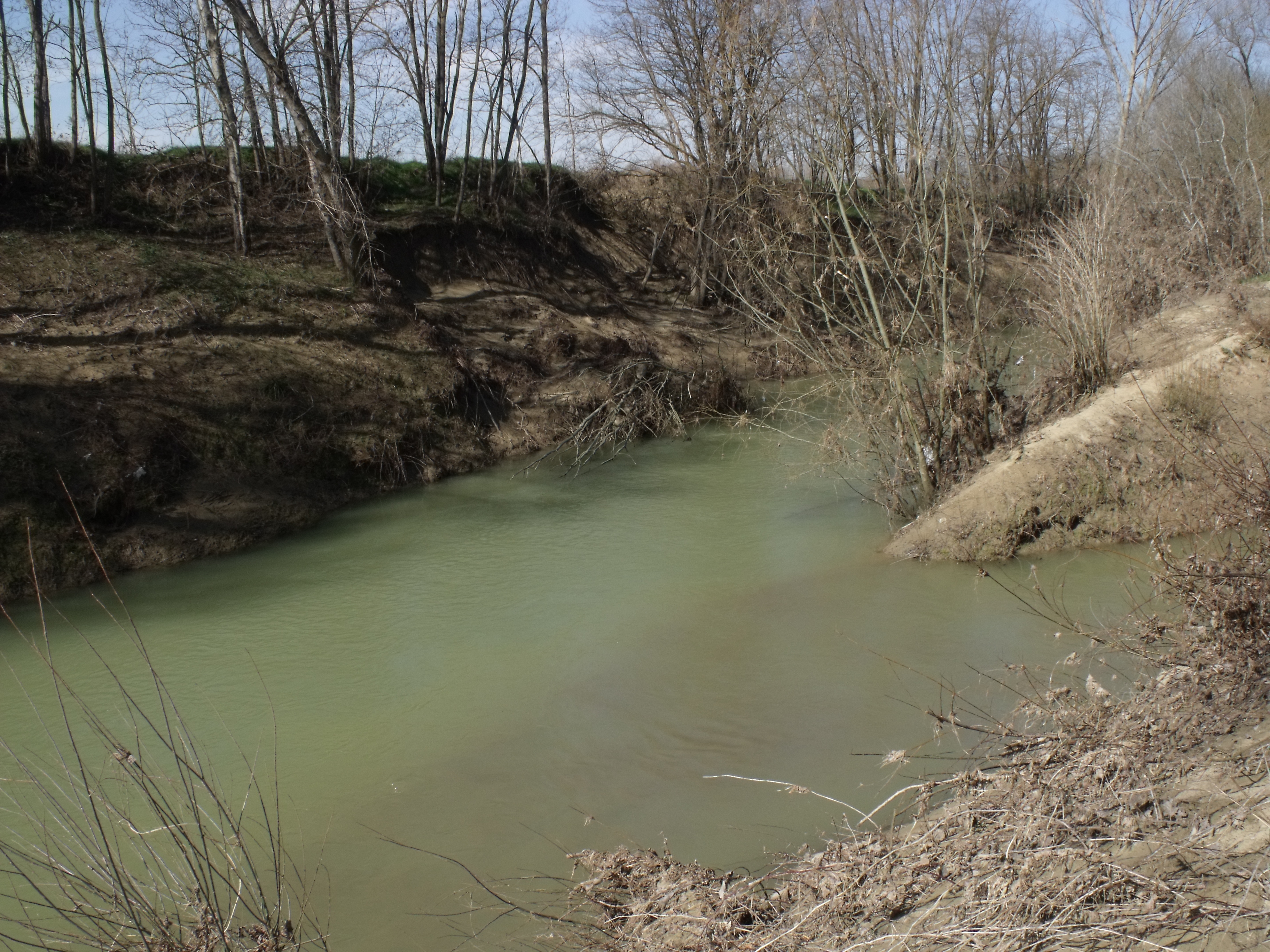 Confluence of the Arbia (left) and the Ombrone (right) south of Buonconvento, Province of Siena, Tuscany, Italy